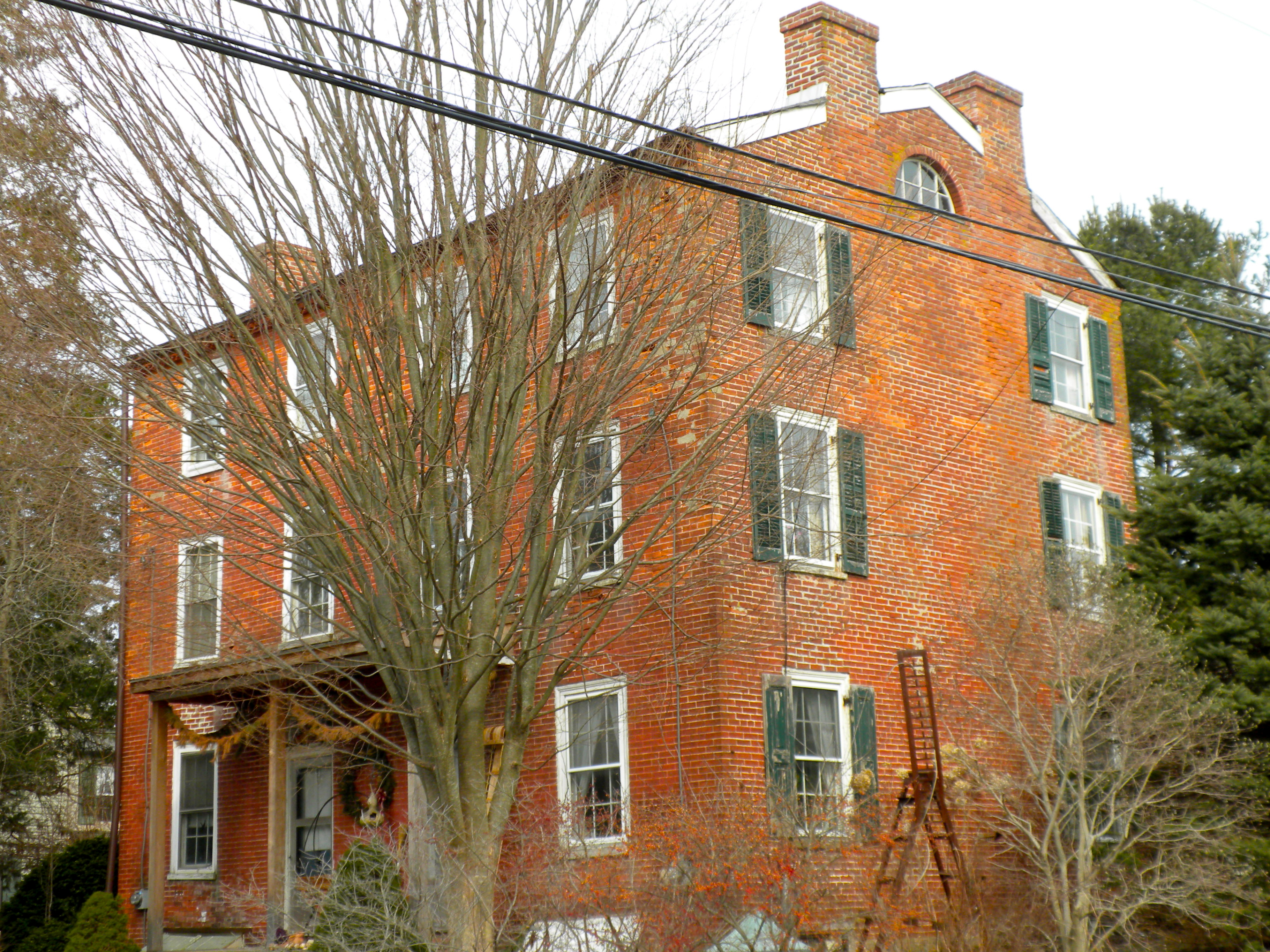 House in Unionville Village Historic District in Unionville, PA. On NRHP since June 6, 1979. At Pennsylvania Routes 82 and 162, in East Marlborough Township, Chester County, PA